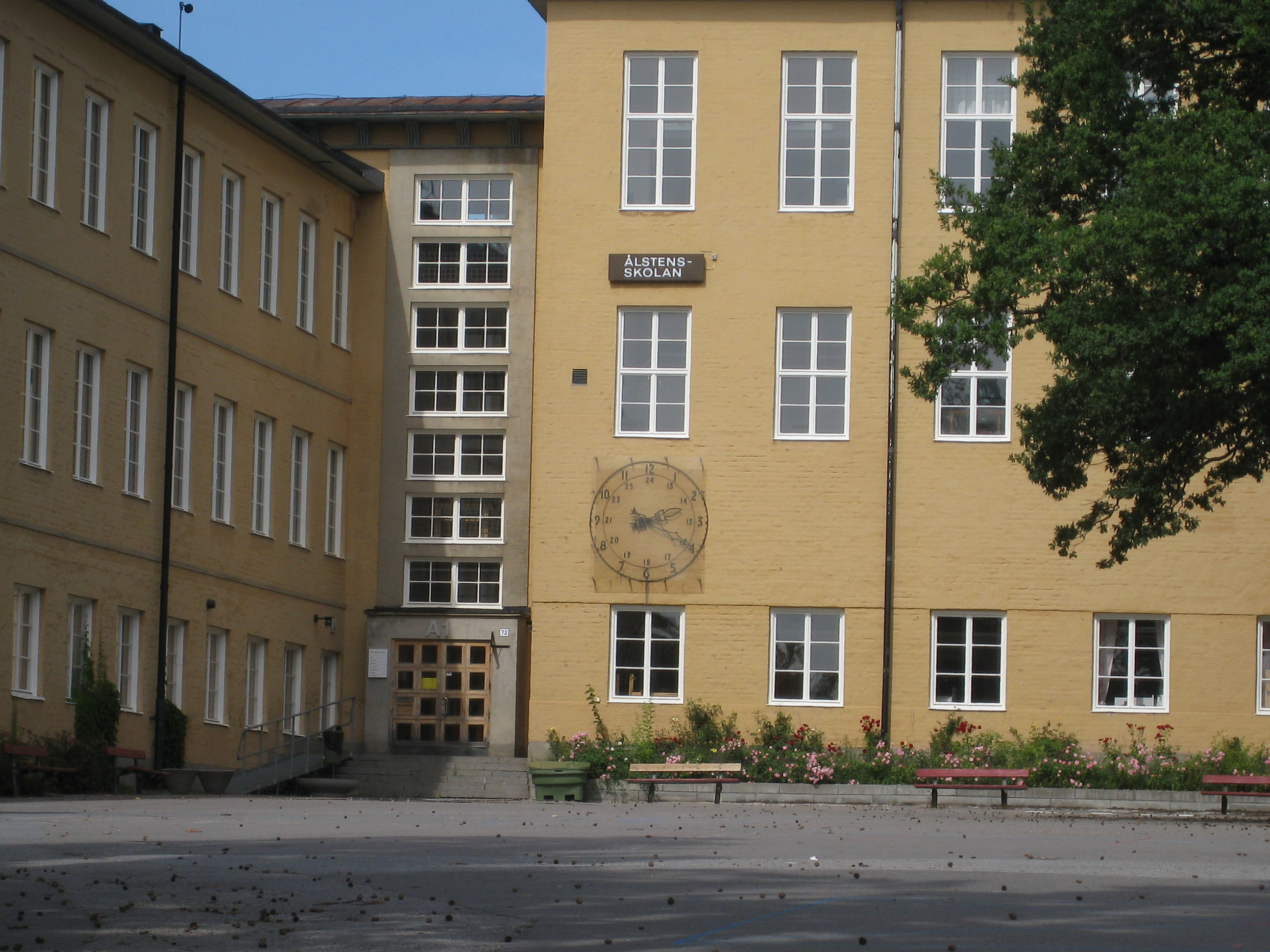 Ålstensskolan in Ålsten, Nyängsvägen 72-80 in Bromma, western Stockholm, Sweden. The architect was Ture Ryberg (1888-1961). The school was opened in 1929.